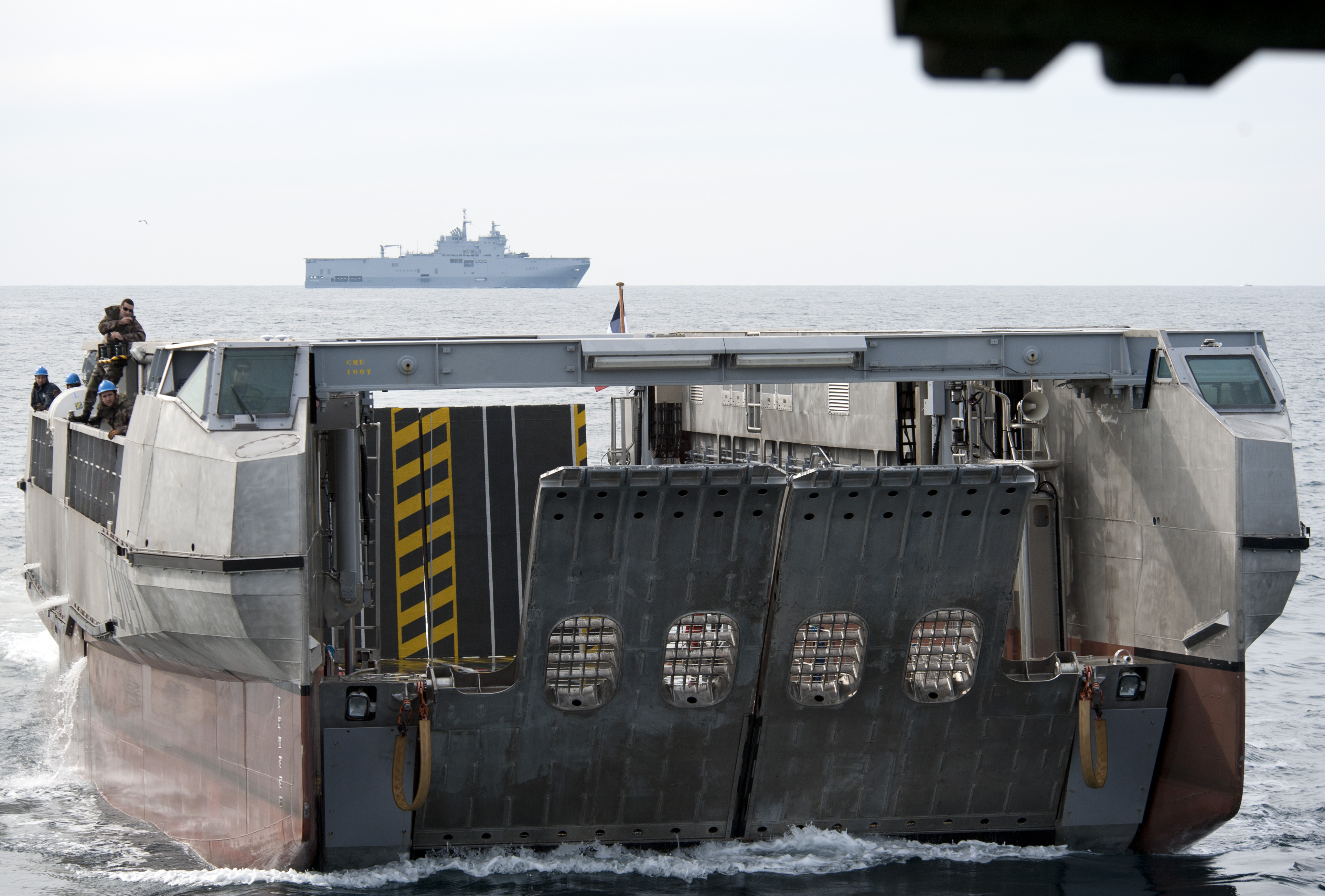 ATLANTIC OCEAN (Feb. 7, 2012) A French landing catamaran (L-CAT) pulls into the well deck of the amphibious assault ship USS WASP (LHD 1) while its home ship, the French amphibious assault ship Mistral (L9013), transits in the background during Exercise Bold Alligator 2012. Bold Alligator, the largest naval amphibious exercise in the past 10 years, represents the Navy and Marine Corps' revitalization of the full range of amphibious operations. The exercise focuses on today's fight with today's forces, while showcasing the advantages of seabasing. This exercise takes place Jan. 30 through Feb. 12, 2012 afloat and ashore in and around Virginia and North Carolina. #BA12 (U.S. Navy photo by Mass Communication Specialist 2nd Class Aaron Chase/Released)